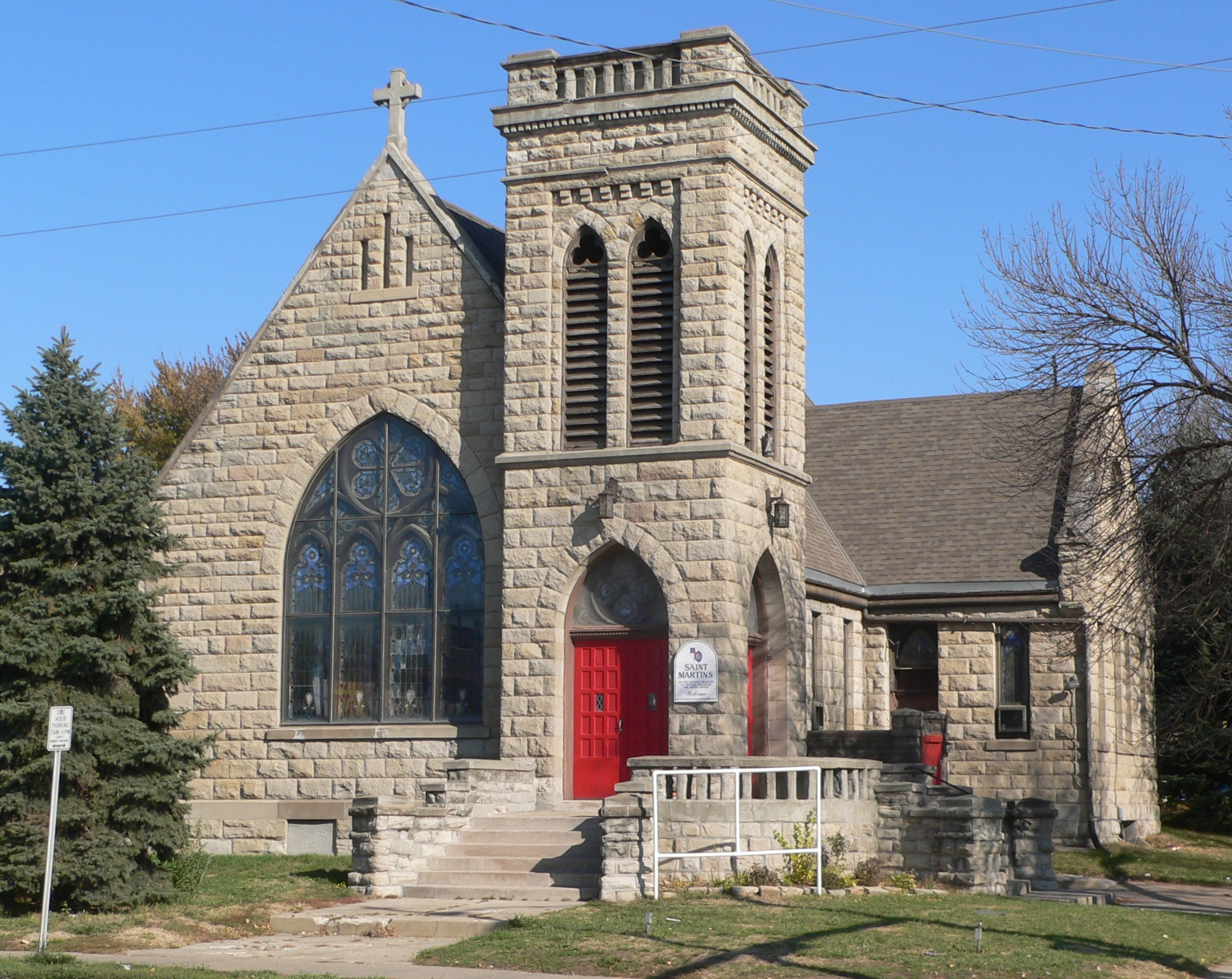 St. Martin of Tours Episcopal Church, located at northeast corner of 24th and J Streets in Omaha, Nebraska; seen from the southwest.